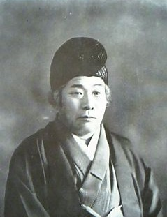 Onisaburo Deguchi